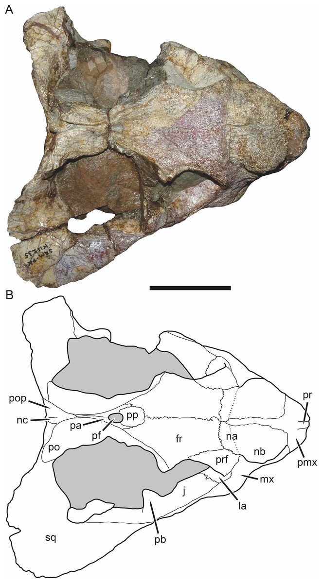 Figure 4: SAM-PK-K11235, holotype of Bulbasaurus phylloxyron gen. et sp. nov., in dorsal view. (A) photograph and (B) interpretive drawing. Abbreviations: fr, frontal; la, lacrimal; j, jugal; na, nasal; nb, nasal boss; nc, nuchal crest; pa, parietal; pb, base of postorbital bar; pf, pineal foramen; pmx, premaxilla; po, postorbital; pop, postparietal; pp, preparietal; pr, premaxillary ridge; prf, prefrontal; sq, squamosal. Gray indicates matrix. Scale bar equals 5 cm.